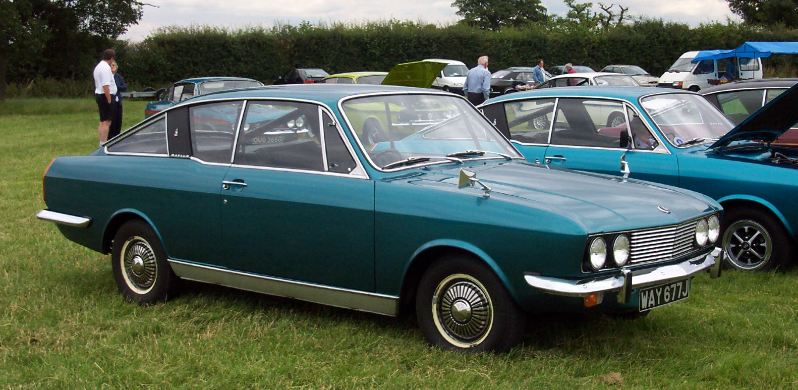 Summary Sunbeam Rapier 'Fastback' Coupe. Picture by David Parrott.